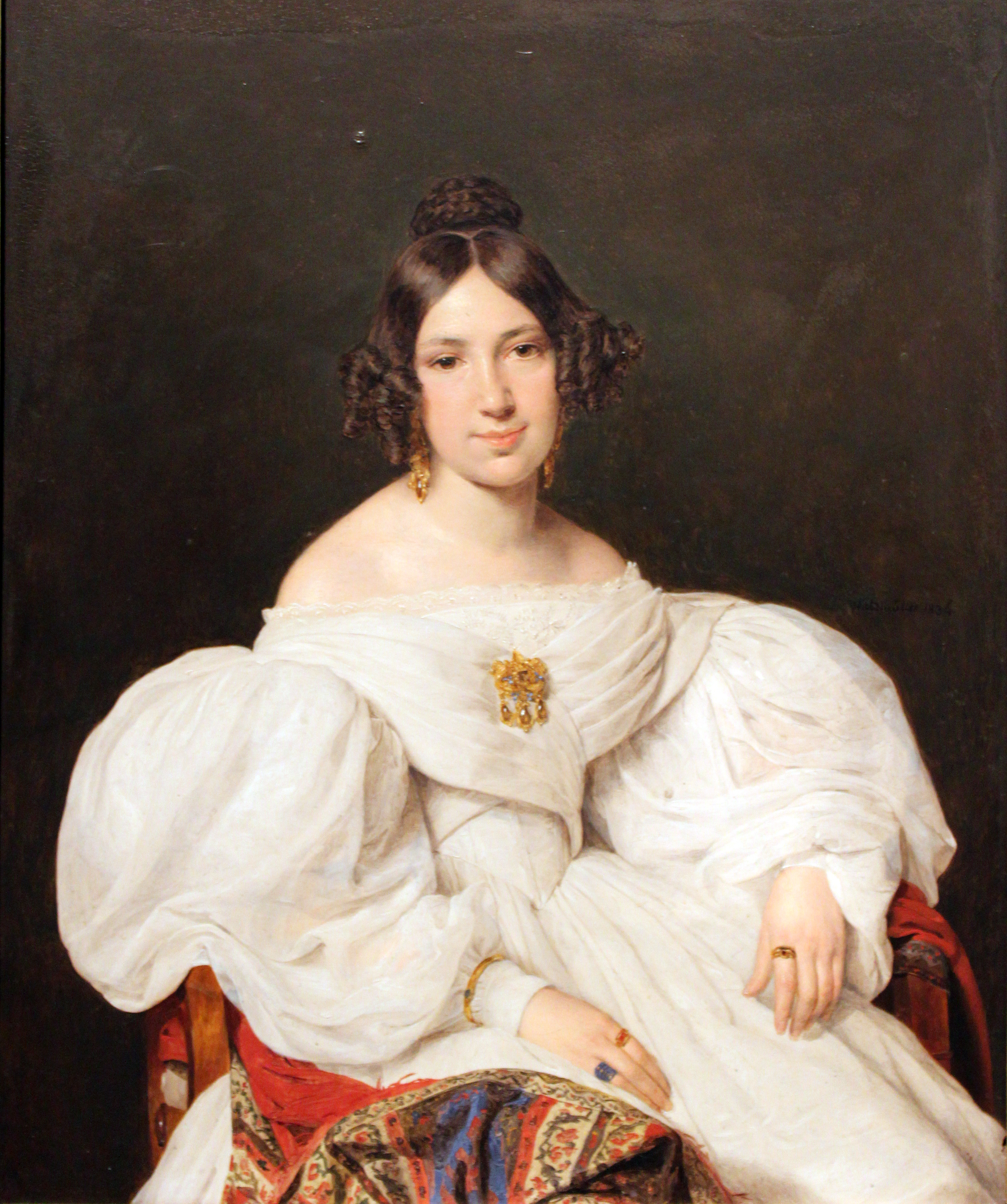 Portrait of Louise Mayer (born Feldmüller)